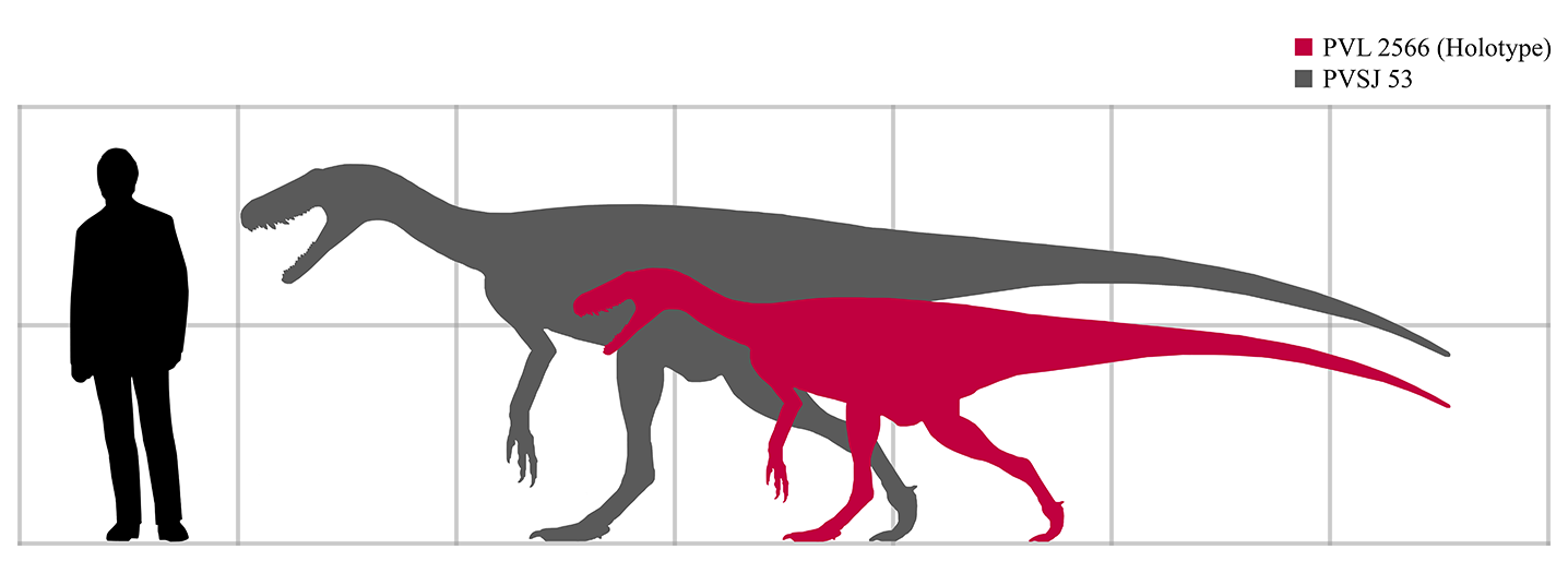 Scale diagram of Herrerasaurus ischigualastensis, compared in size with a human, shown are the holotype specimen (PVL 2566) and the largest known specimen (PVSJ 53). Silhouette after reconstruction by Scott Hartman from .